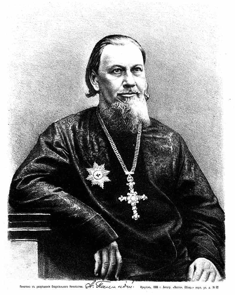 Archimandrite Palladiy, head of the Russian Orthodox Church's Spiritual Mission in Peking (Bejing).